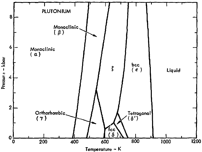 These 1975 phase diagrams are generally incomplete, reaching at most 250 kbar (25 GPa) and thus lacking many high-pressure metallic phases. Taken from "Phase Diagrams of the Elements", David A. Young, UCRL-51902 "Prepared for the U.S. Energy Research & Development Administration under contract No. W-7405-Eng-48". From the document, "DISTRIBUTION OF THIS DOCUMENT IS UNLIMITED"; printed copies were available from the National Technical Information Service.